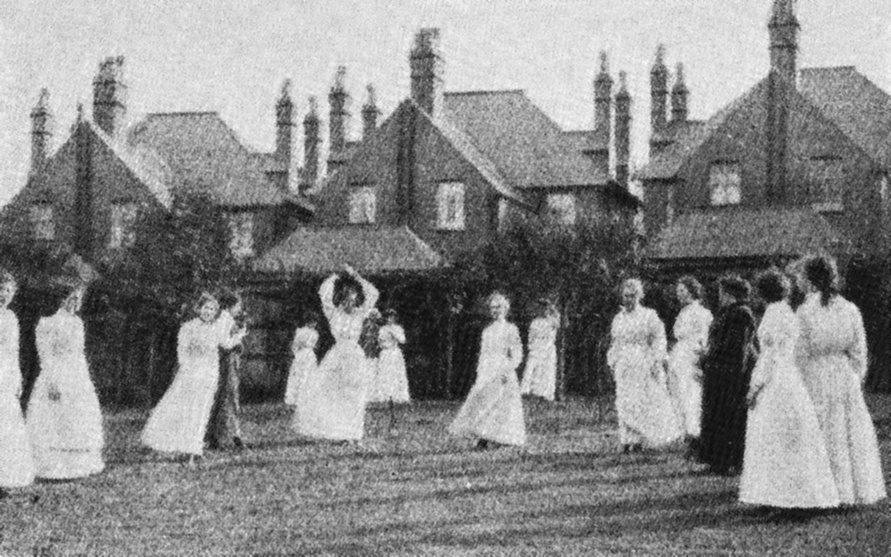 Long skirt wearing netball players from Bournville Club in 1910.